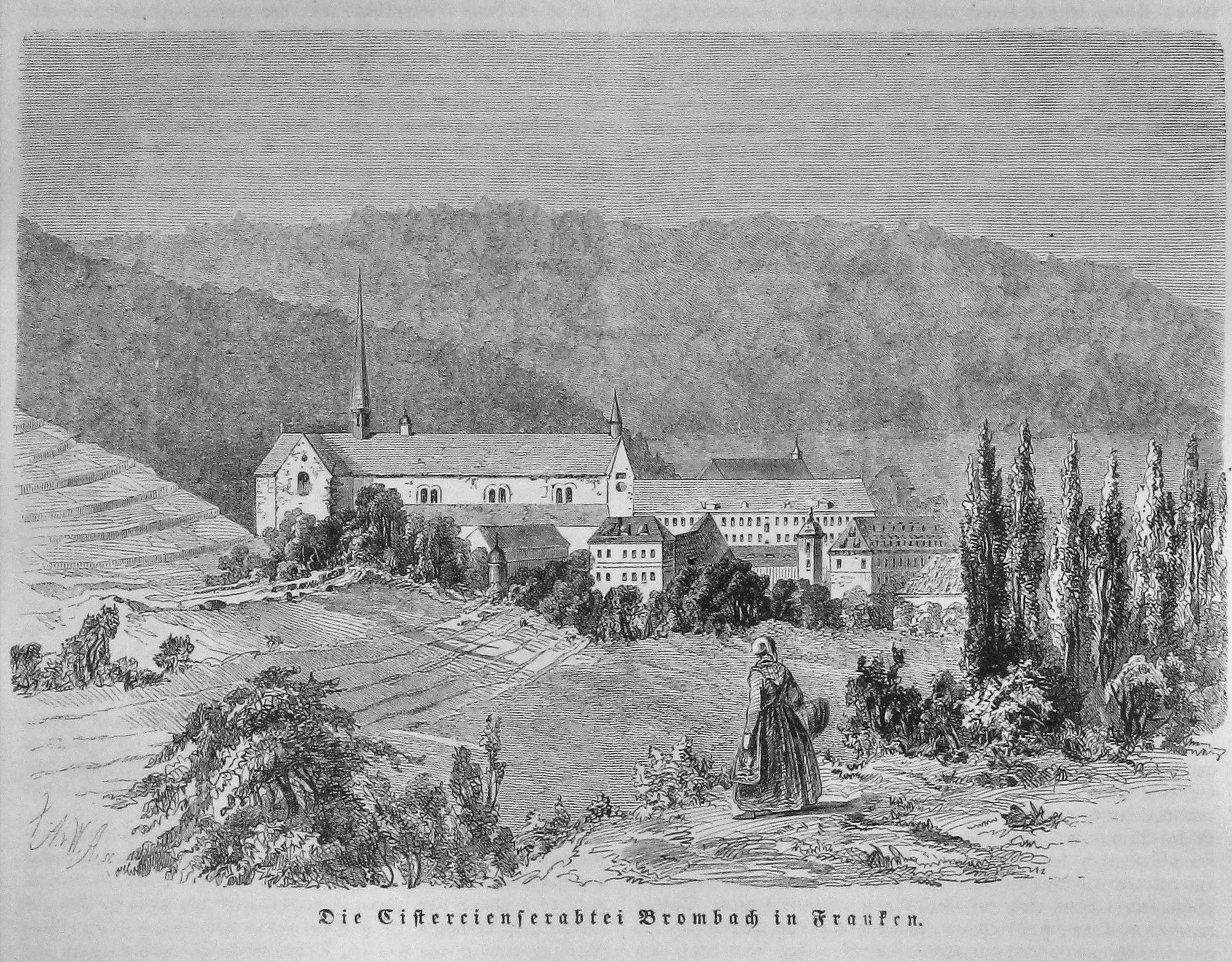 caption: "Die Cistercienserabtei Brombach in Franken."